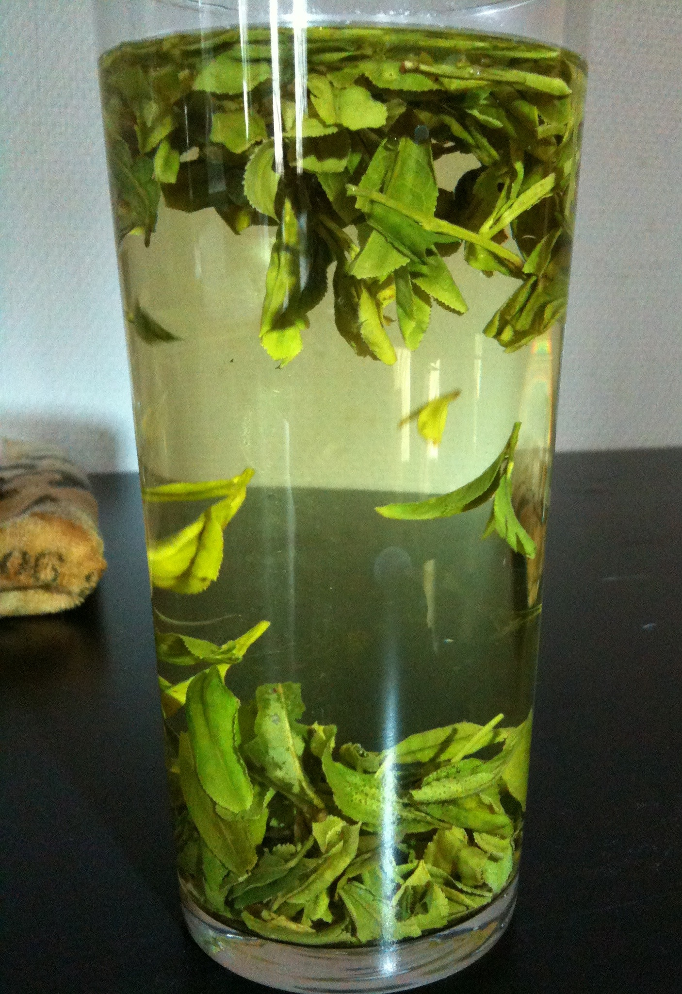 A glass of Longjing (Dragon Well) tea steeping. Tall glass brewing method.